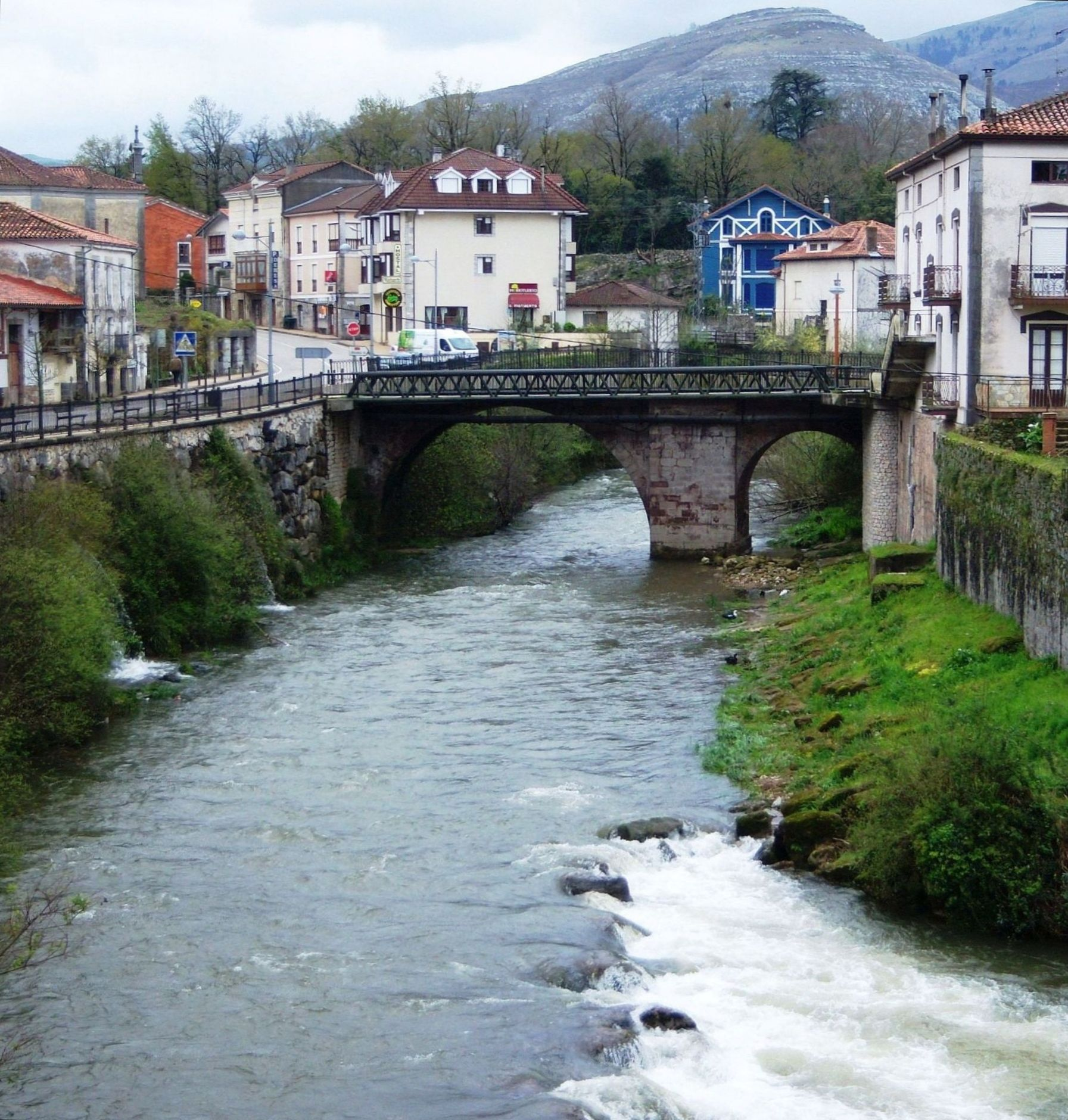 River Miera in the town of La Cavada (Cantabria, Spain)